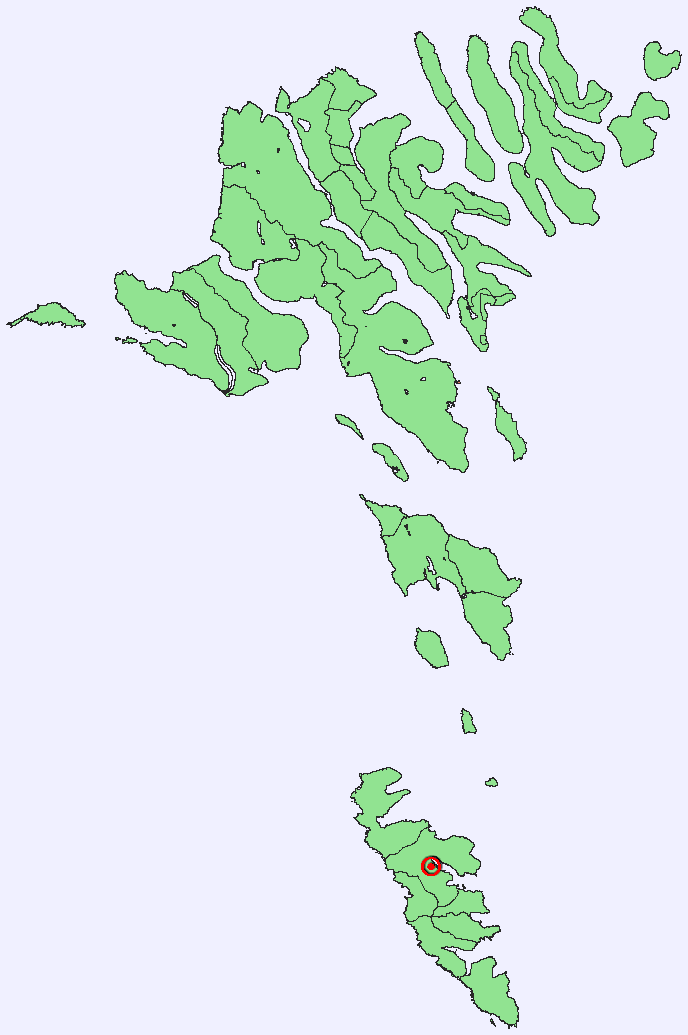 Position of Øravíkarlíð in the Faroe Islands